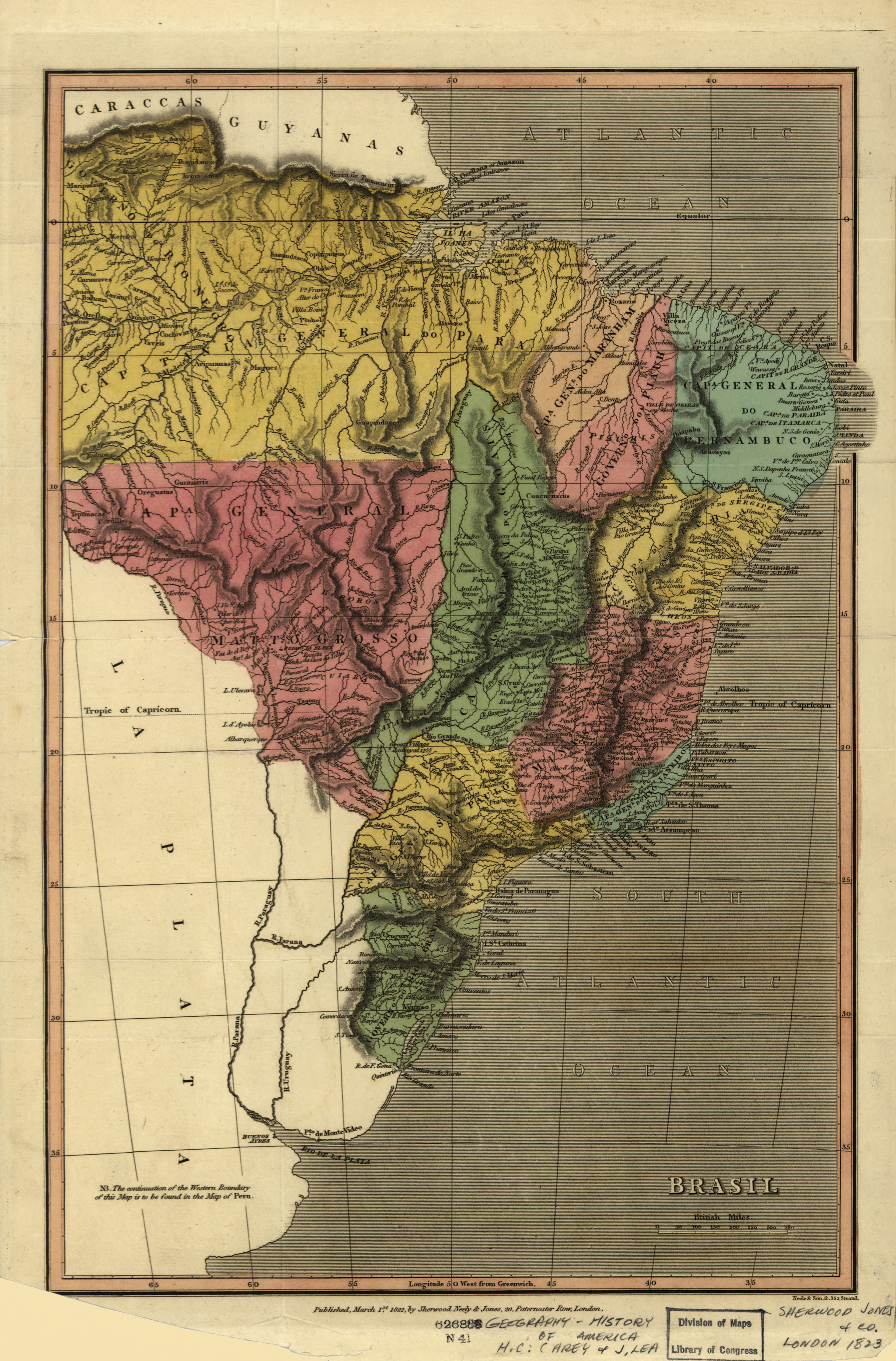 From: Geography - History of America. London : Sherwood Jones & Co., 1823. Available also through the Library of Congress web site as a raster image.